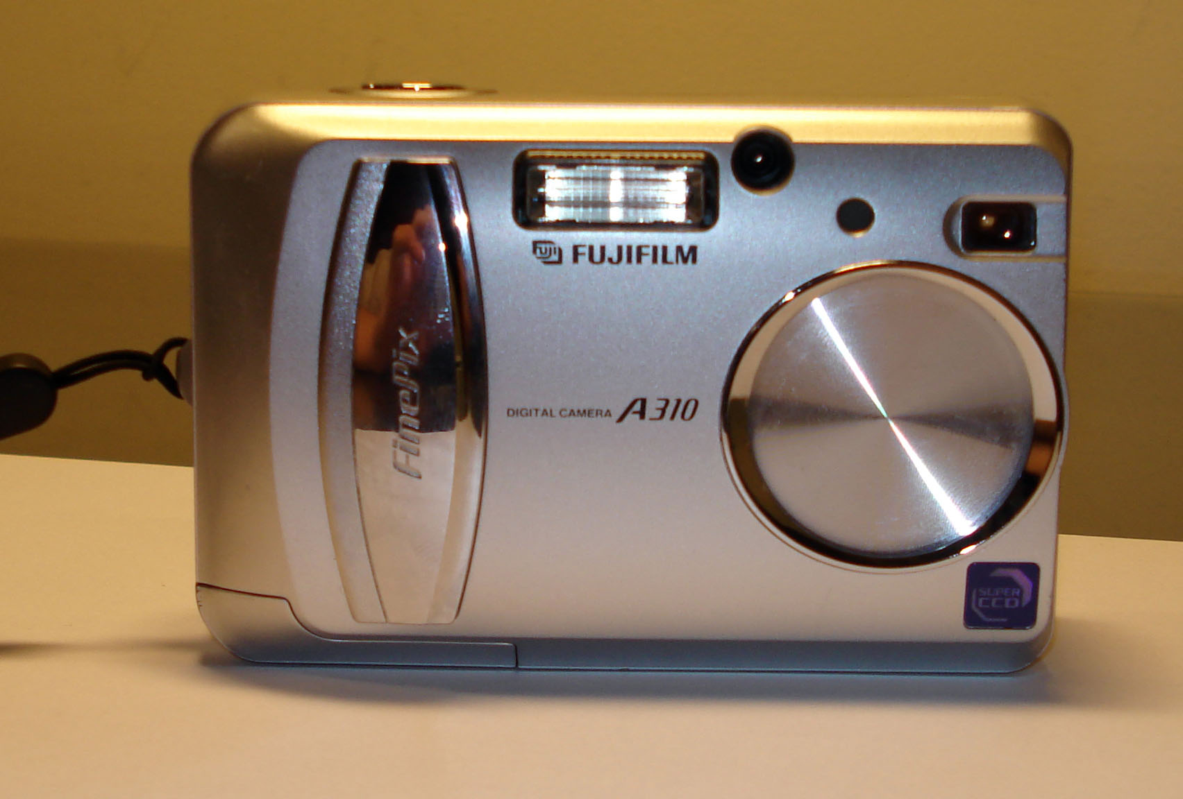 Photograph of the FujiFilm FinePix A310 Digital Camera. Can be used for any purpose for any reason.